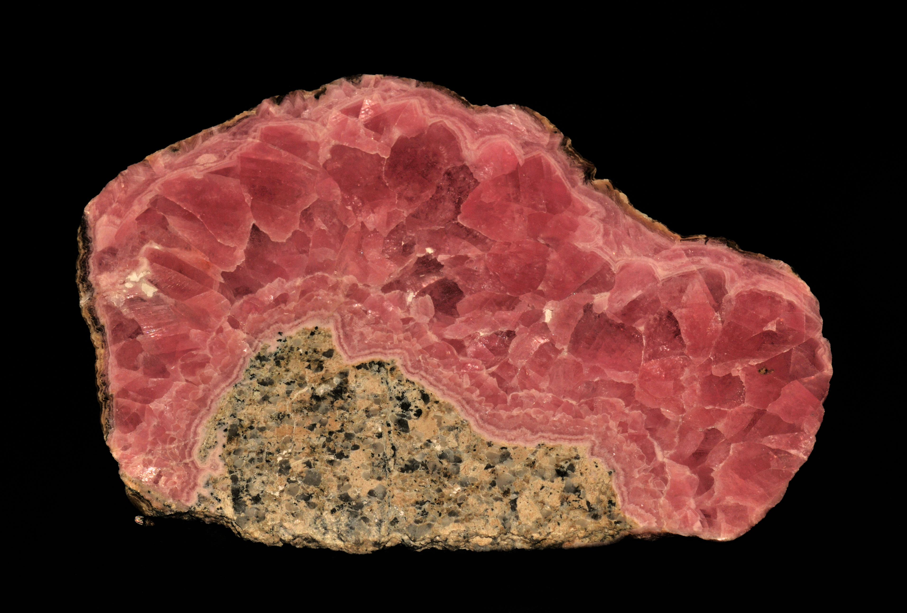 Rhodochrosite from Argentina.